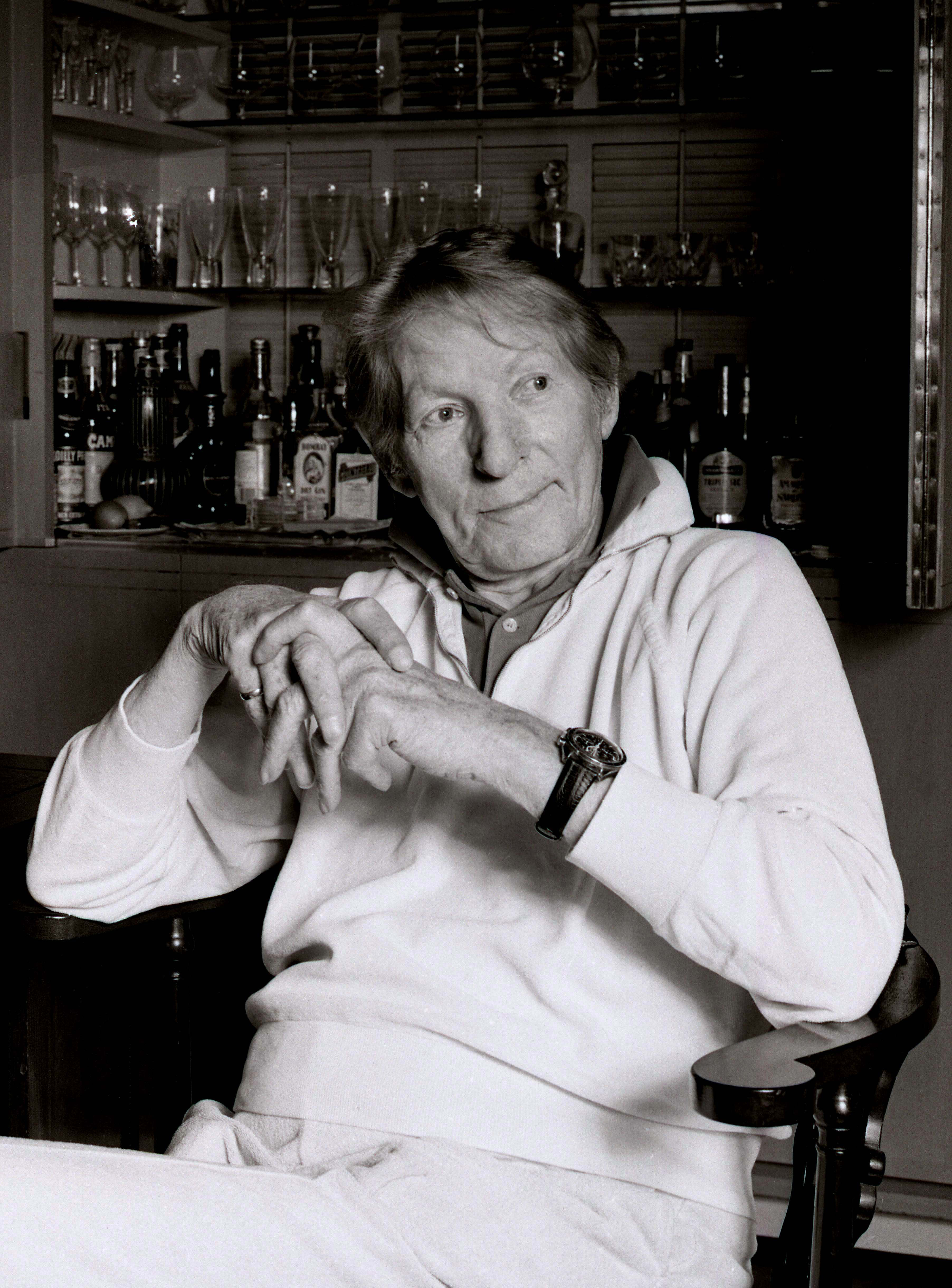 Danny Kaye portrait in his home in California